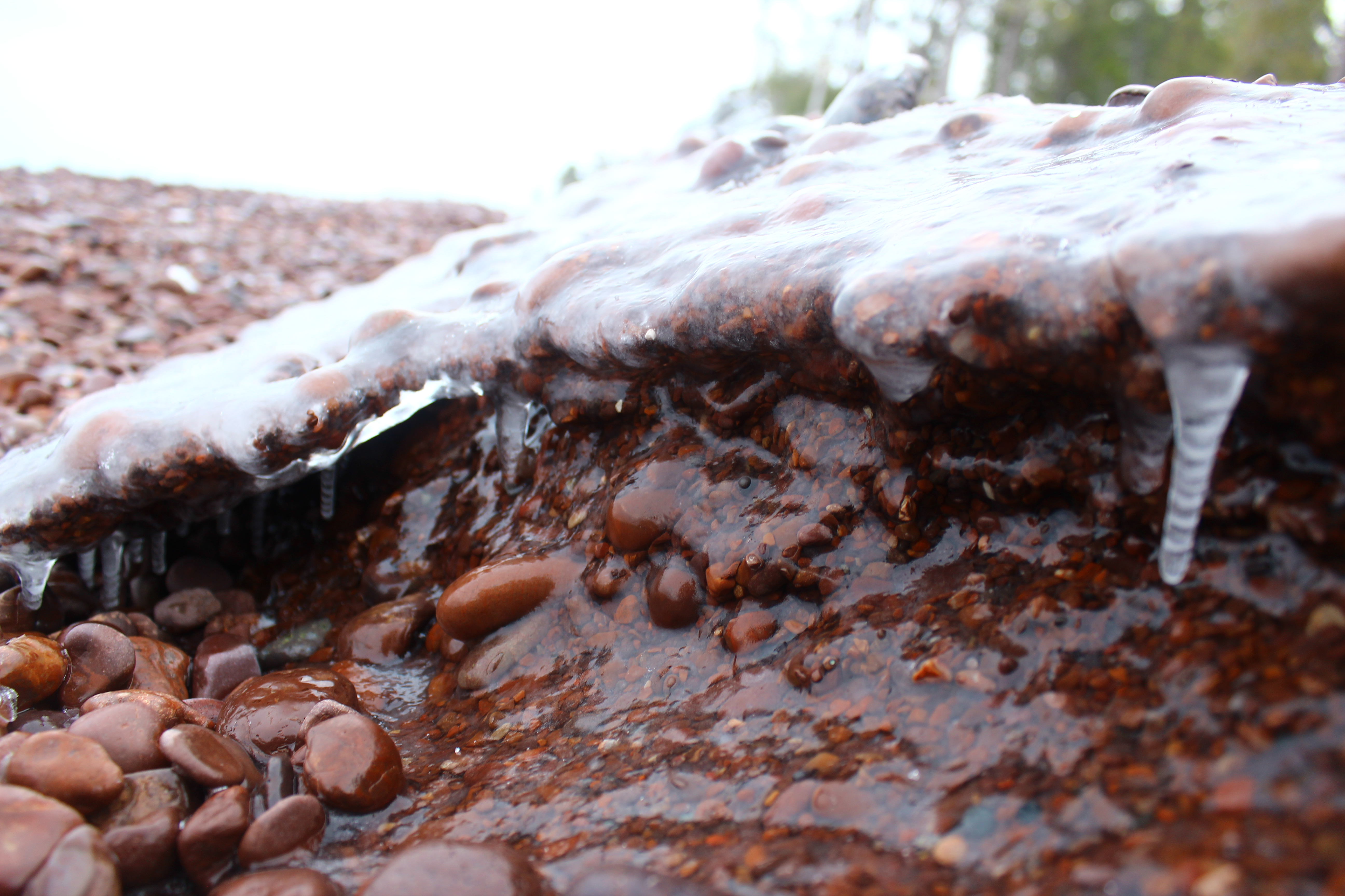 Mid December 2015. Copper Harbor, Upper Peninsula, MI. Dimensions [5184 x 3456]